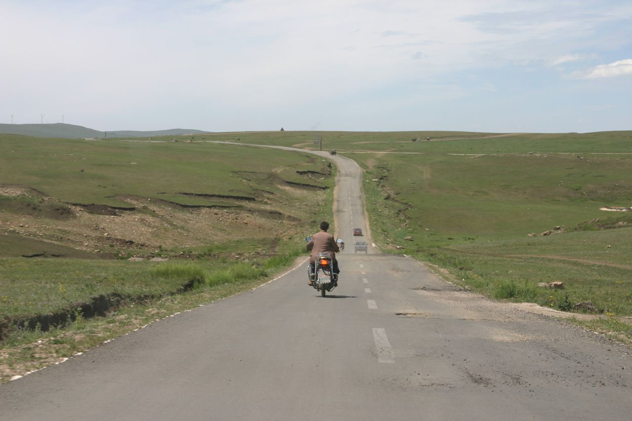 Huitengxile wind farm, Inner Mongolia, People's Republic of China